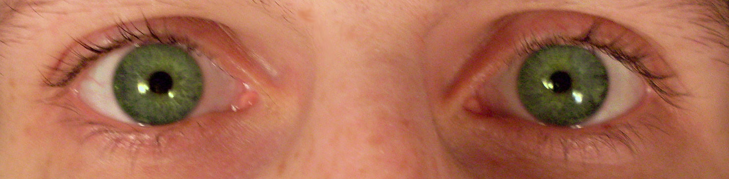 A 25 year old Caucasian male with miosis due to opiate (i.e. codeine) use.